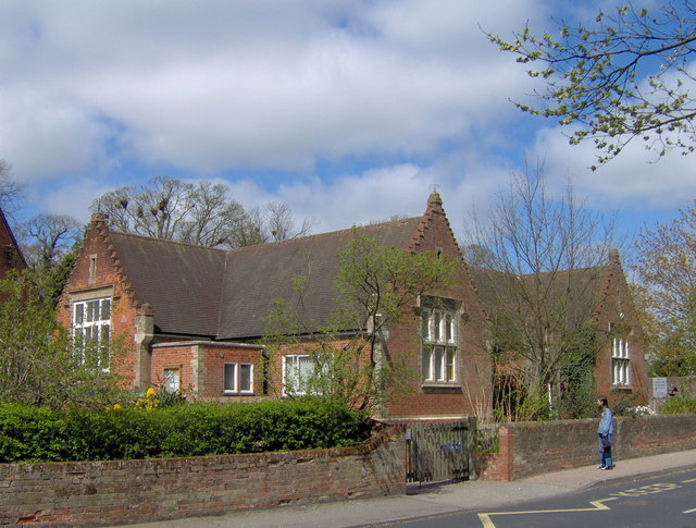 Crawford's School, Haughley This Church of England Voluntary Controlled Primary School was founded by William Crawford in 1866. See Haughley community website for more information